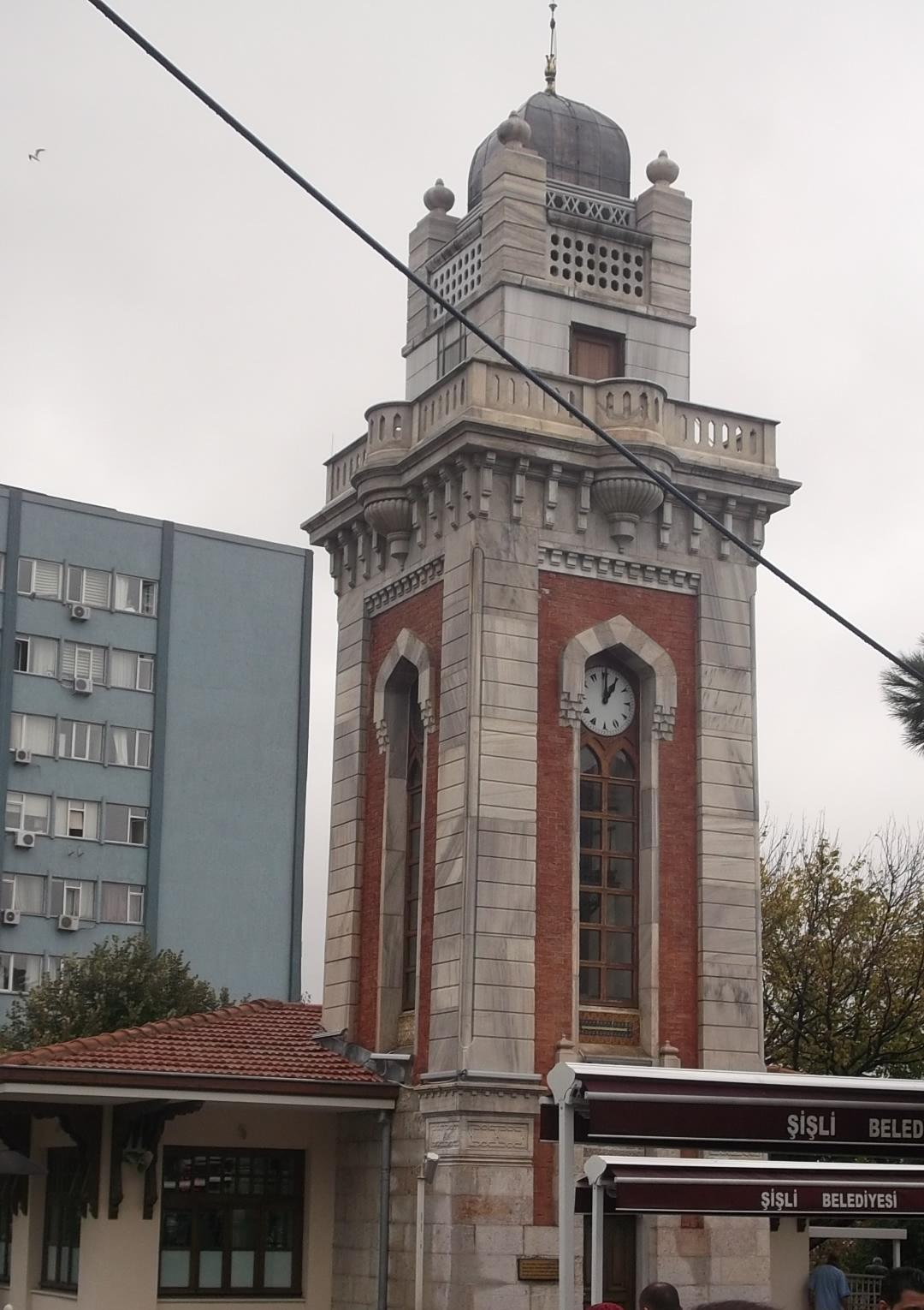 Etfal Hospital Clock Tower.